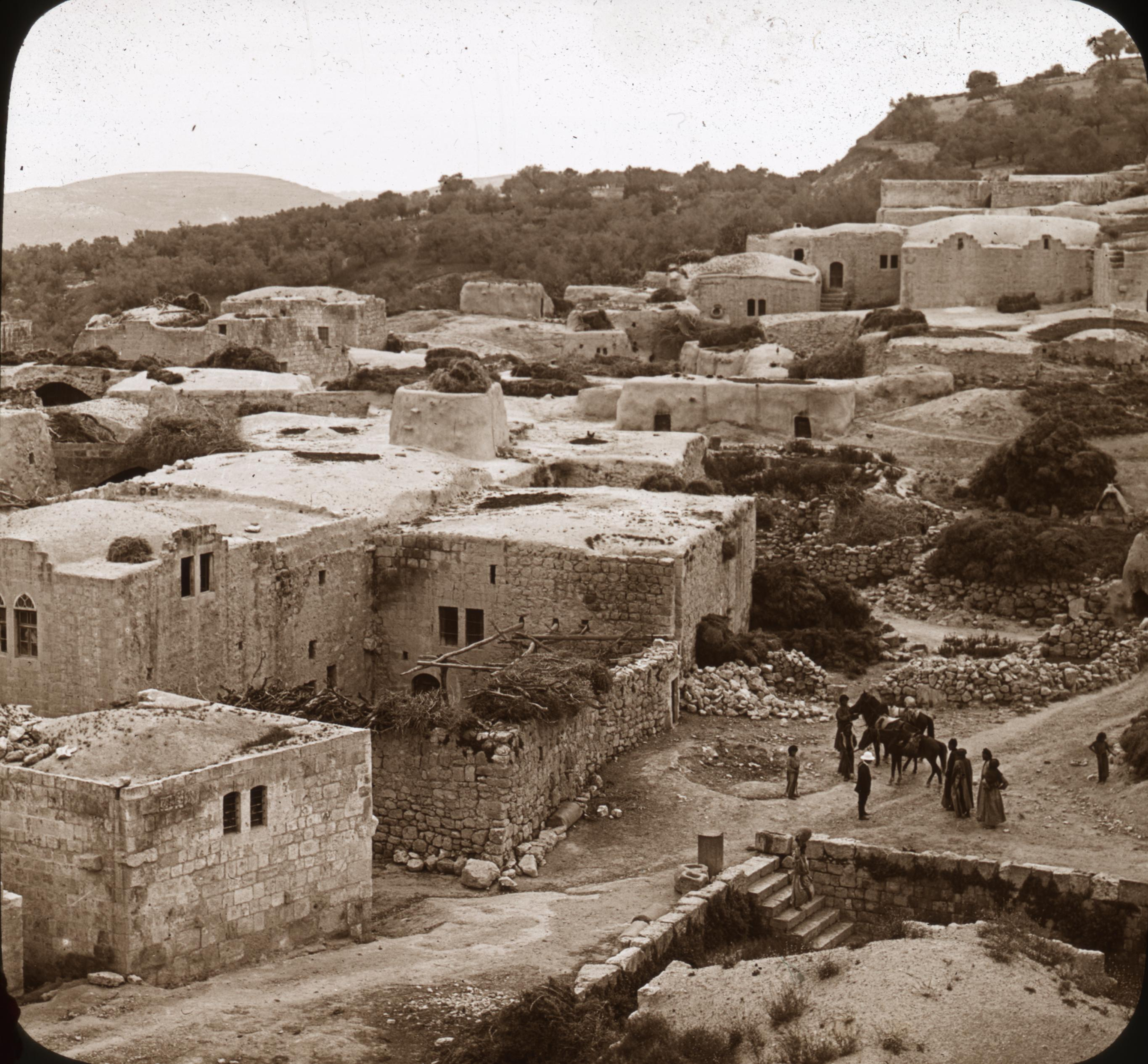 Image Description from historic lecture booklet: "Let us take a closer view of the village along the eastern slope of the Samaritan mountain. This group of houses is the modern representative of the splendid city where stood King Ahab's ivory palace, where Elijah delivered his flaming messages, where Elisha dwelt, and where long afterward Herod the Great held his court. This was the city, too, where Philip the Evangelist, when driven out of Jerusalem by the persecuting Saul, preached the Gospel of Christ, and founded his first Christian Church outside the pale of Judaism. Do you see in the foreground some steps leading down from the road? That is the entrance to the Pool of Samaria, where the chariot of the slain King Ahab was washed, and his blood dripped out upon the pavement, as foretold by Elijah and narrated by the writer of Second Kings, mean and insignificant as this village is, it has a past of deep interest." Original Collection: Visual Instruction Department Lantern Slides Item Number: P217:set 013 018 You can find this image by searching for the item number by clicking here. Want more? You can find more digital resources online. We're happy for you to share this digital image within the spirit of The Commons; however, certain restrictions on high quality reproductions of the original physical version may apply. To read more about what “no known restrictions” means, please visit the Special Collections & Archives website, or contact staff at the OSU Special Collections & Archives Research Center for details.